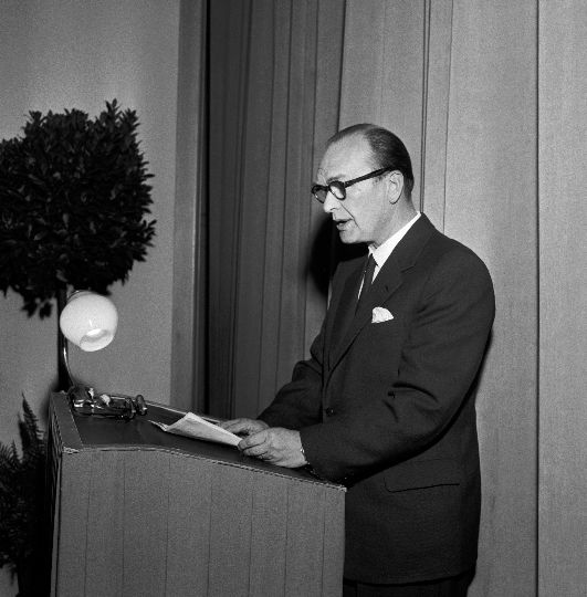 Photograph of the Finnish publisher Untamo Utrio (1905–1980) delivering a speech.